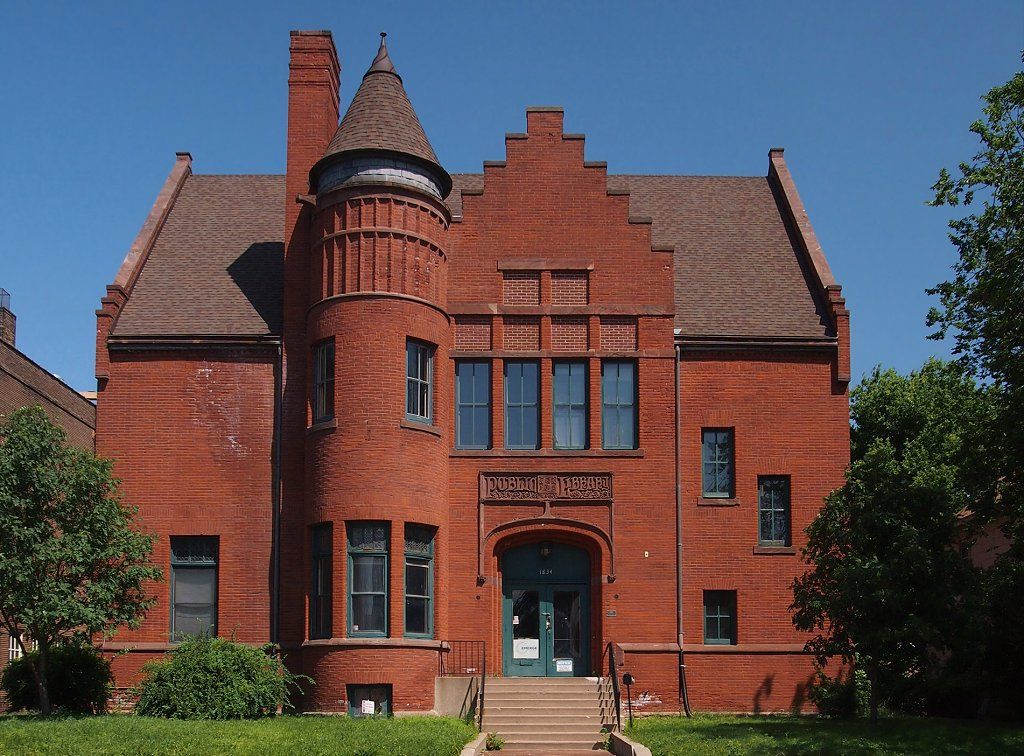 Former North Branch of Minneapolis Public Library, 1834 Emerson Ave. N, Minneapolis, Minnesota, USA. Viewed from the west, lightly corrected for tilt distortion.